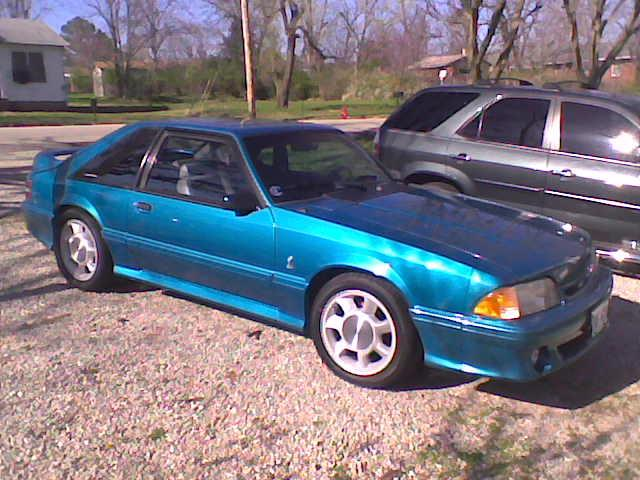 1993 Ford Mustang Cobra